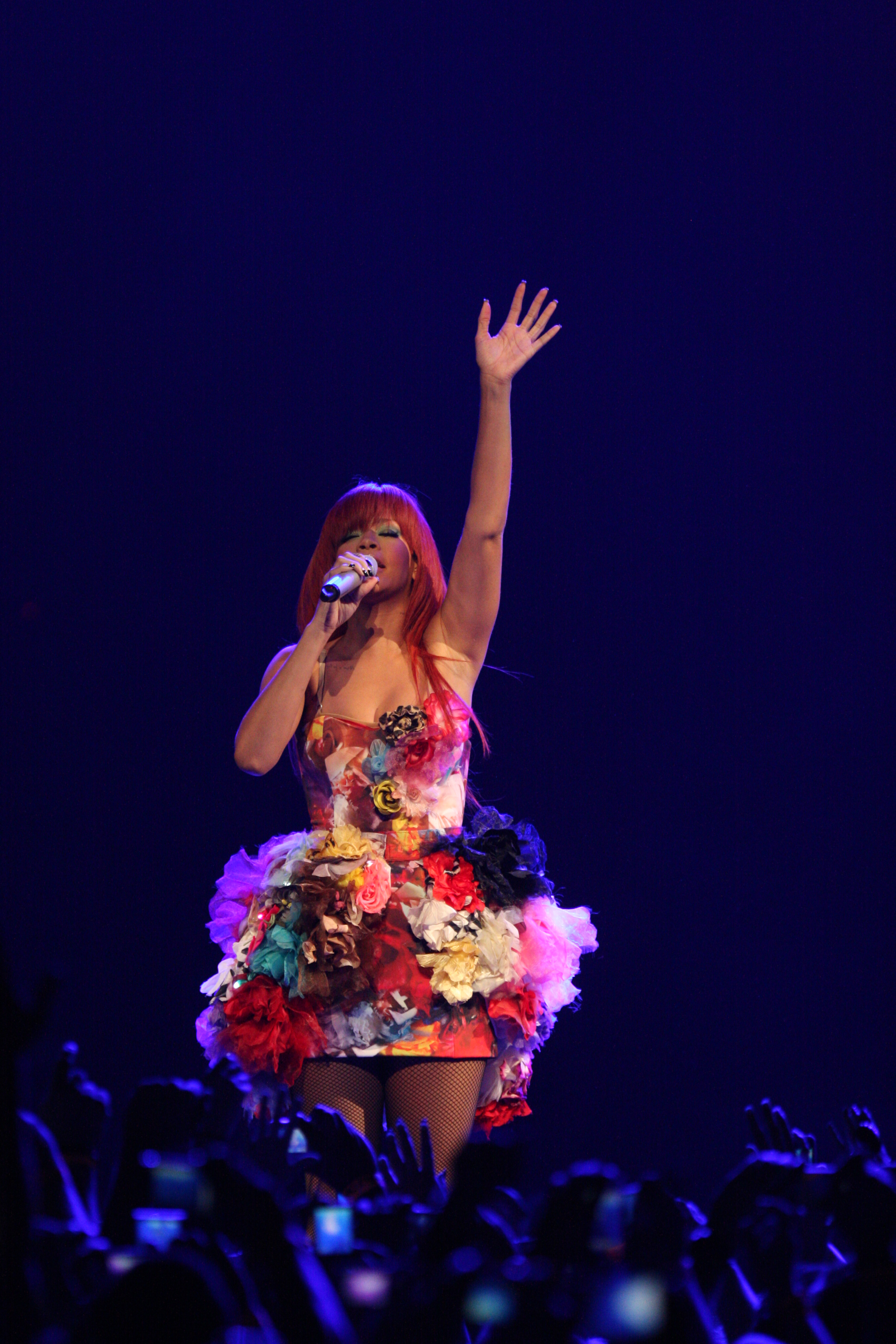 RIHANNA 2011 Last Girl on Earth Tour Australia